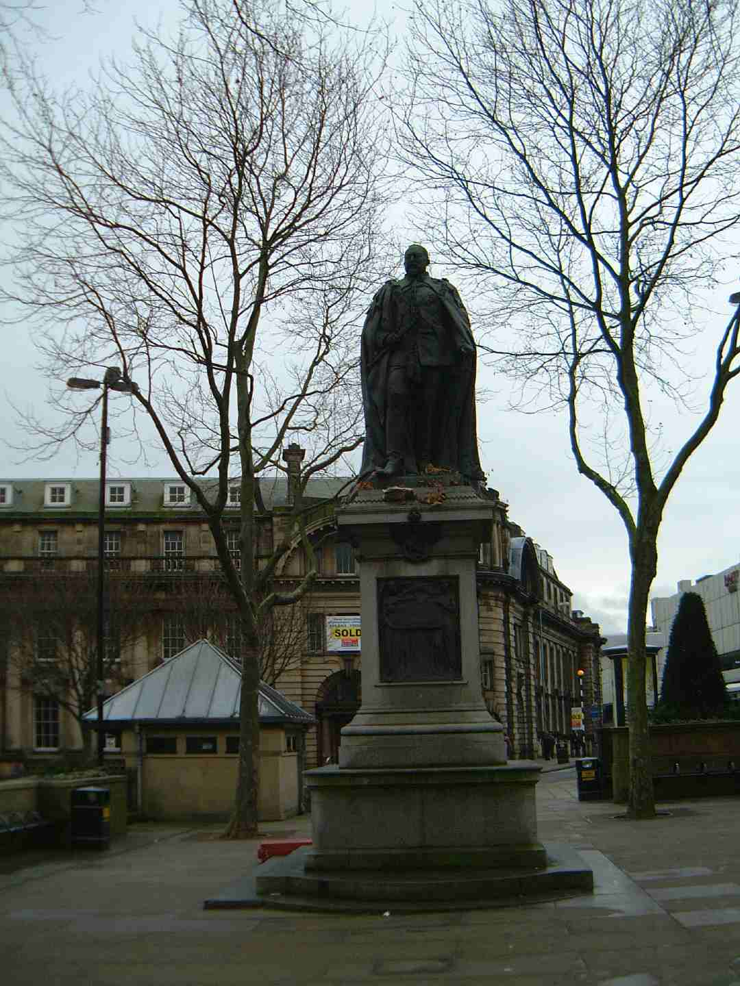 Personal photograph taken on January 18th 2006 by Mick Knapton